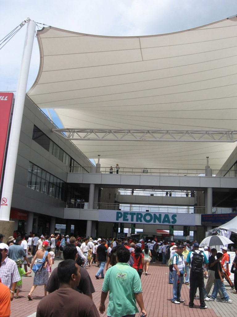 The entrance for fans at the Sepang International circuit